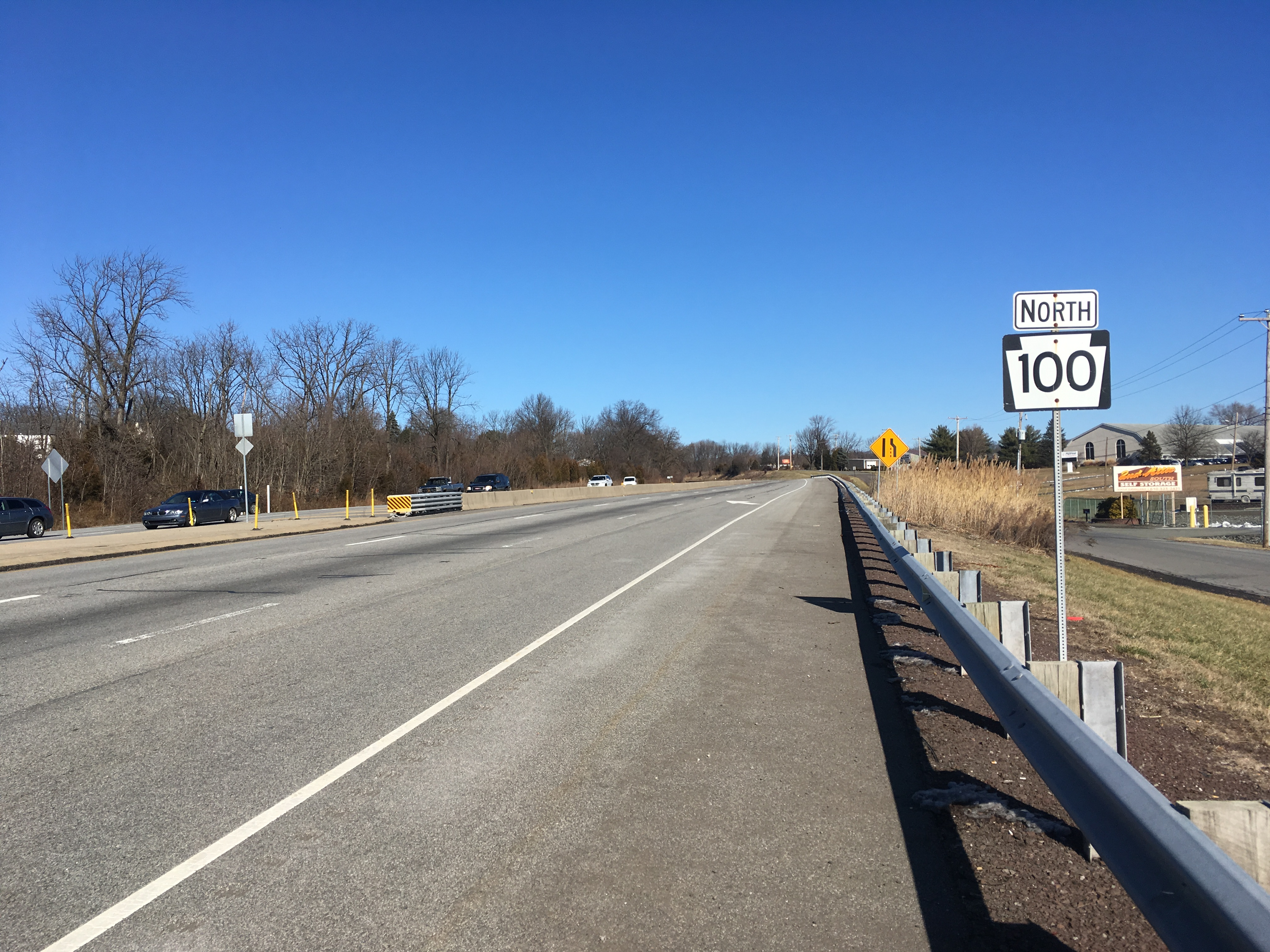 Northbound Pennsylvania Route 100 (Pottstown Pike) past the intersection with Upland Square Drive/State Road in Pottstown, Pennsylvania.